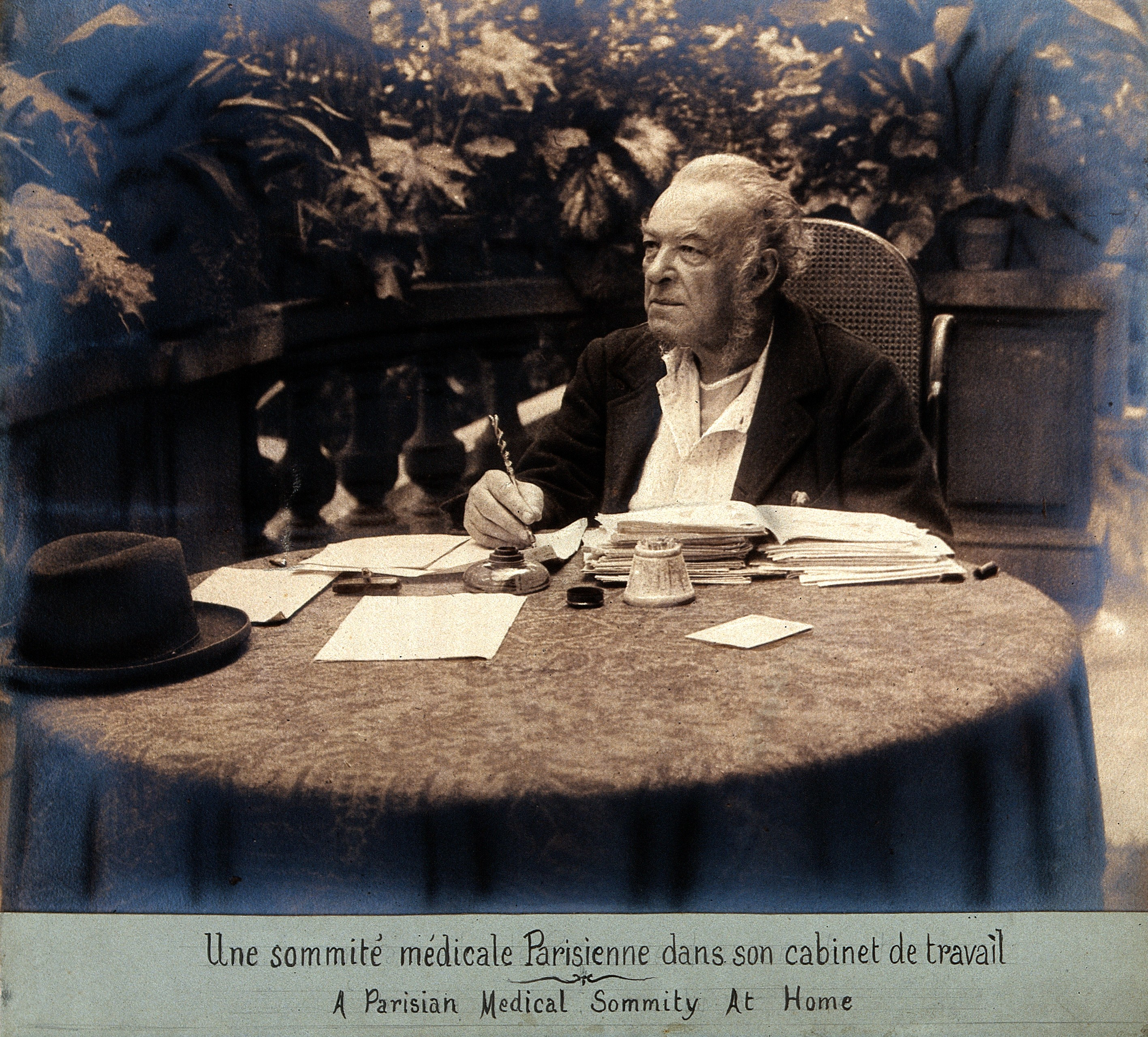 Paul Tillaux. Photograph. Iconographic Collections Keywords: portrait photographs